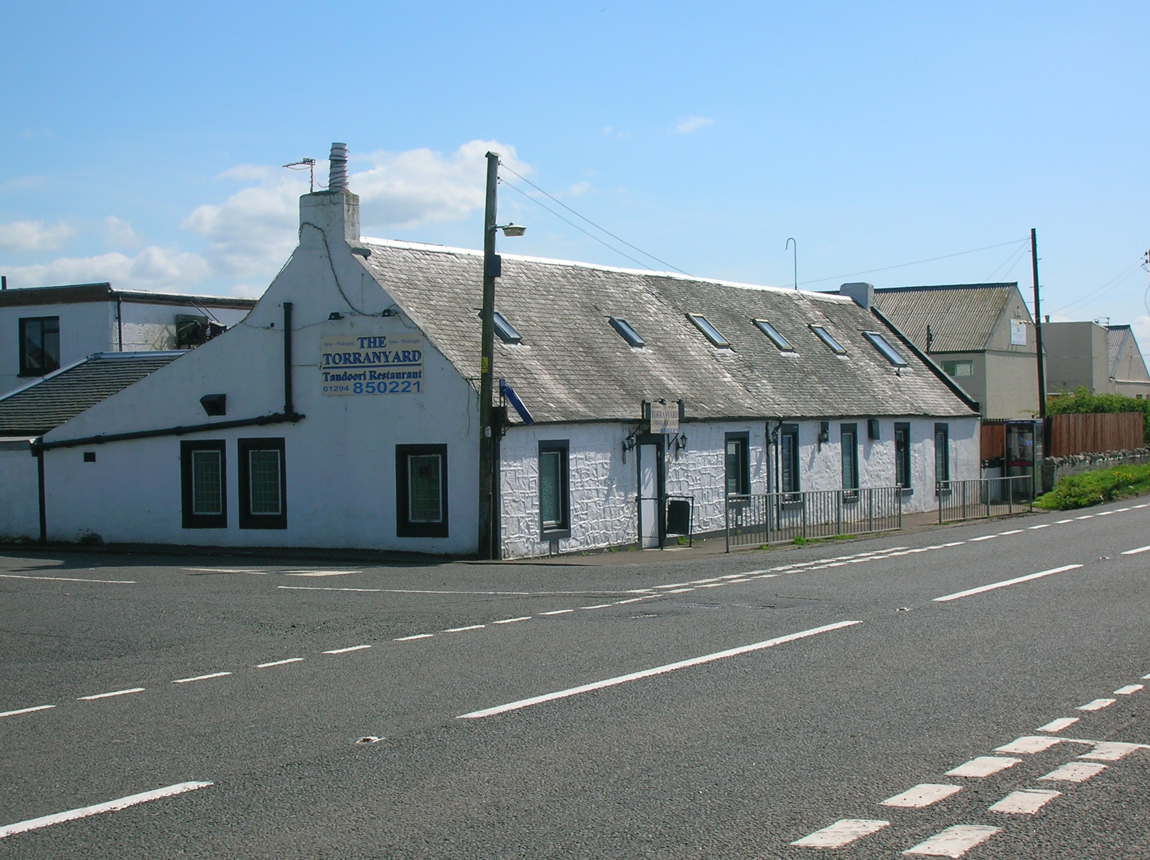 The Torranyard Inn on the A736 in North Ayrshire, Scotland. 2007. Rosser 11:57, 27 April 2007 (UTC)